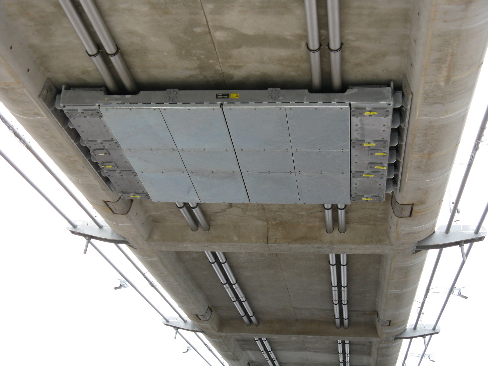 Tuned mass damper fitted to the smaller arch of the Infinity Bridge in Stockton-on-Tees.